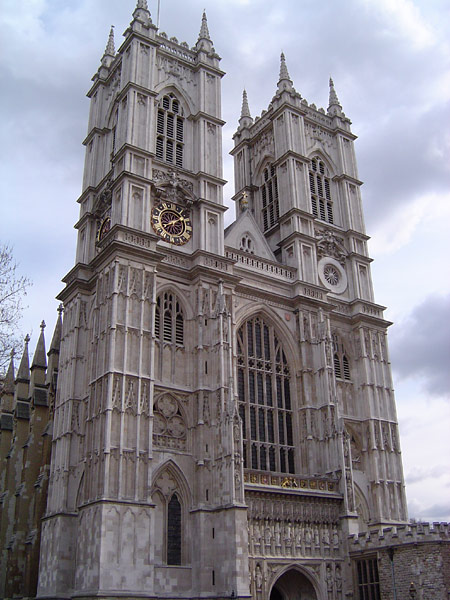 West view of Westminster Abbey, London.